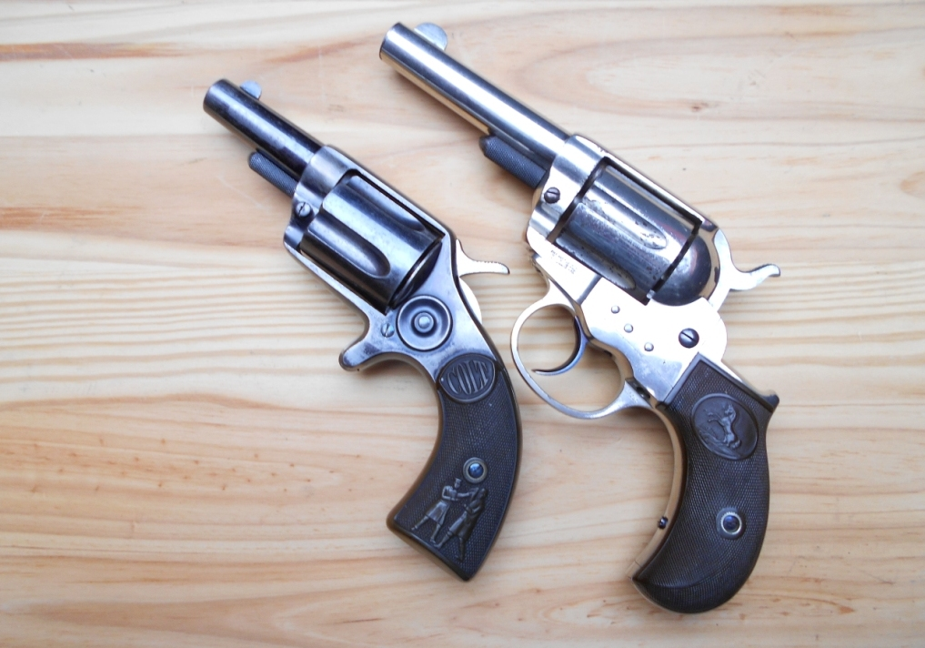 Colt Police Ligthning